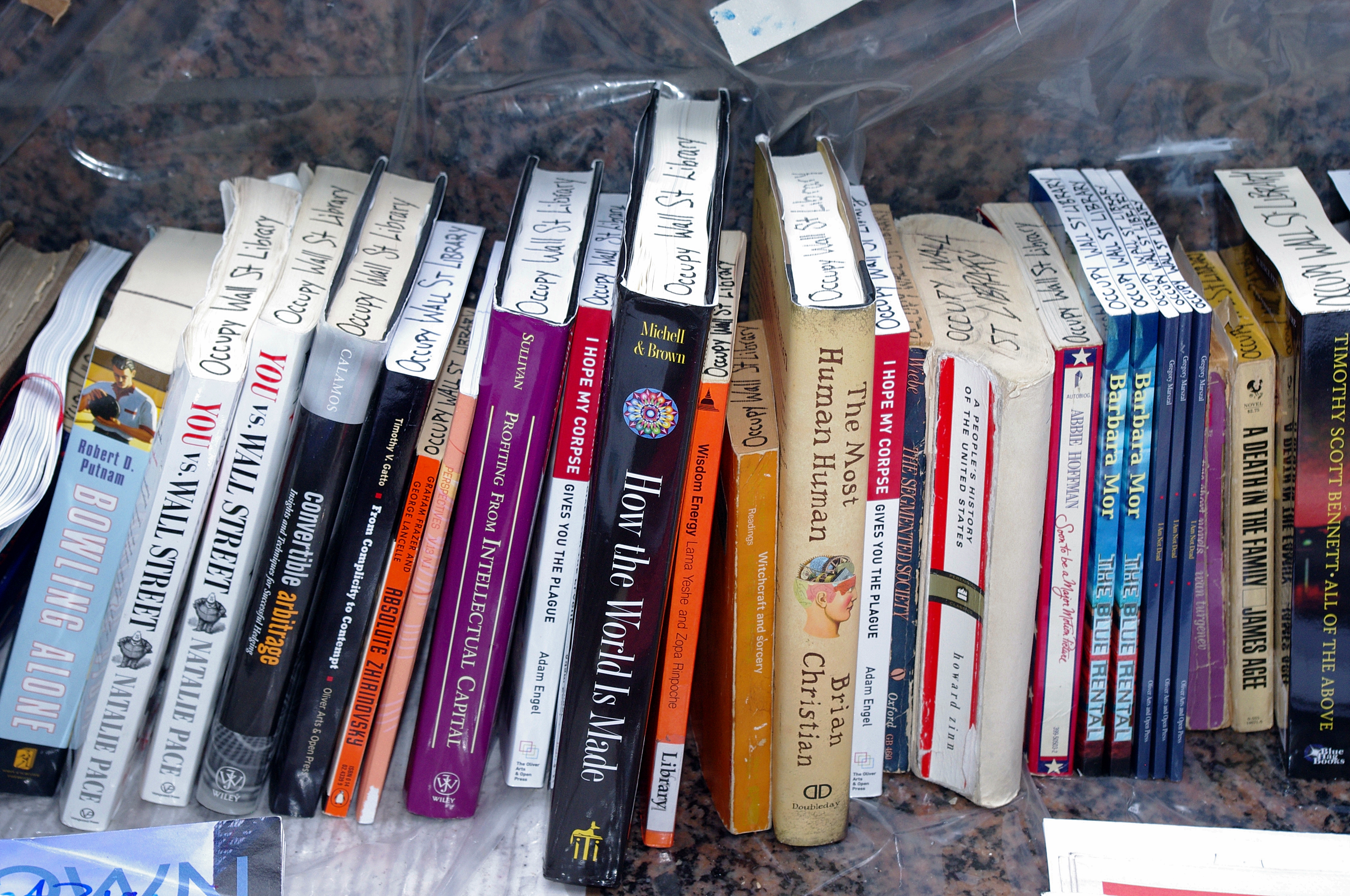 Photographs of Occupy Wall Street from Zuccotti Park on Day 9, September 25. Wall Street remains closed to the public.